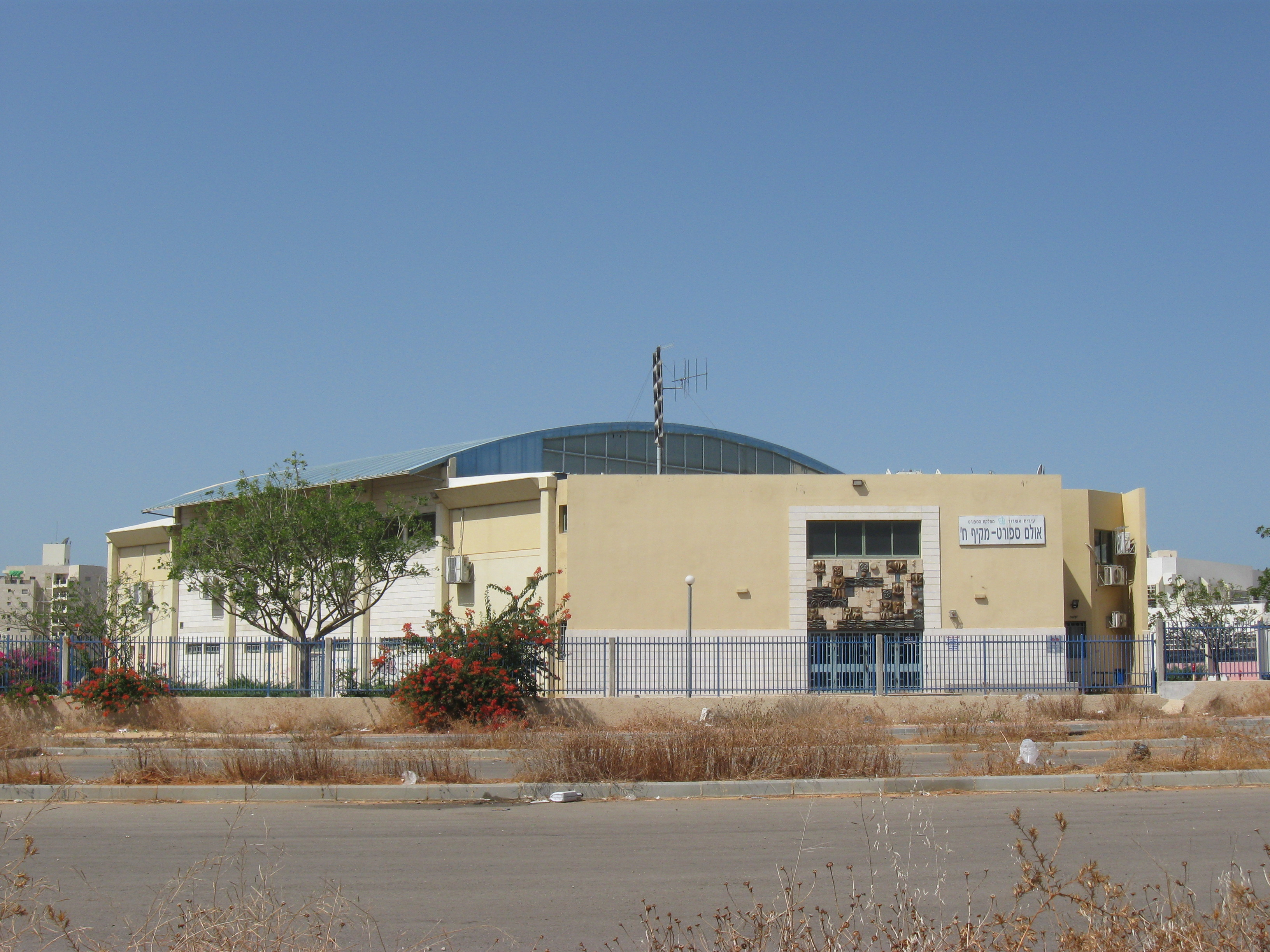 maccabi ashdod old arena